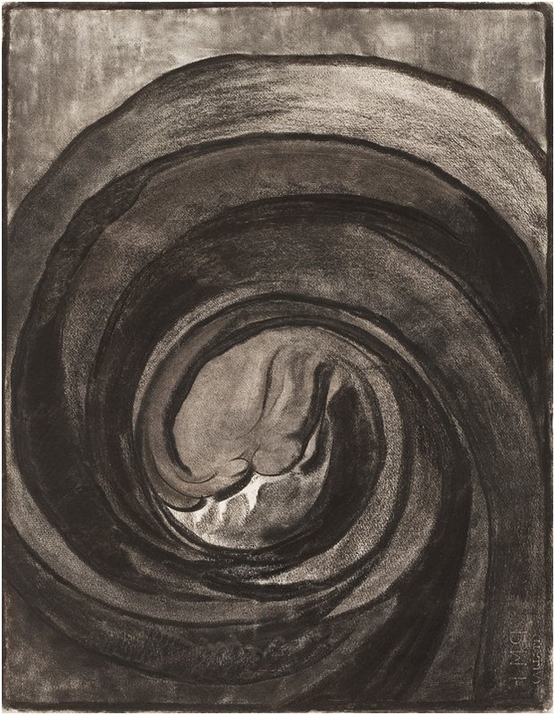 Georgia O'Keefe, No. 8 Special, 1916